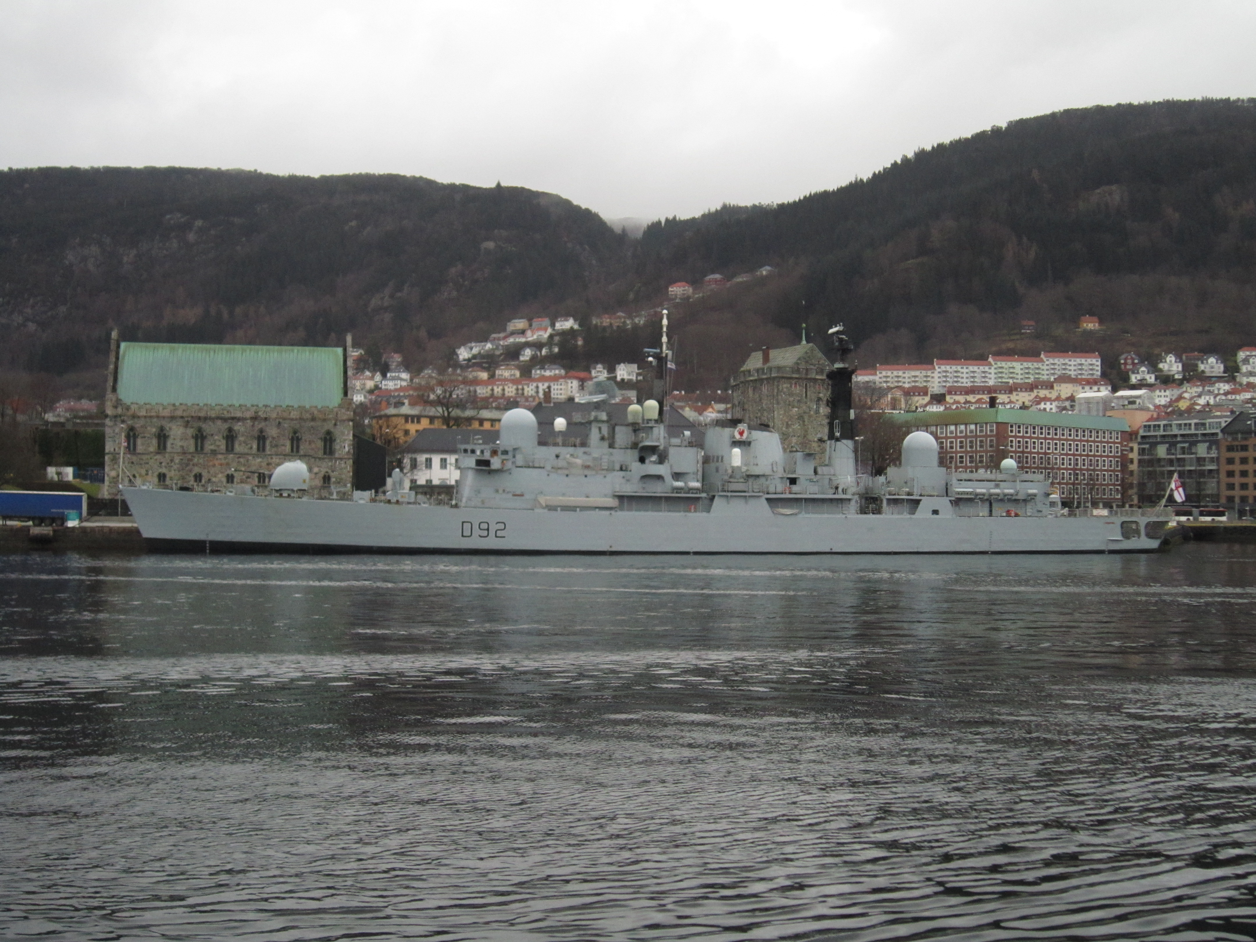 HMS Liverpool in Bergen Harbour, march 22nd 2012.